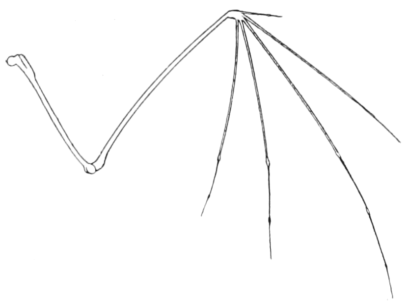 Wing of bat